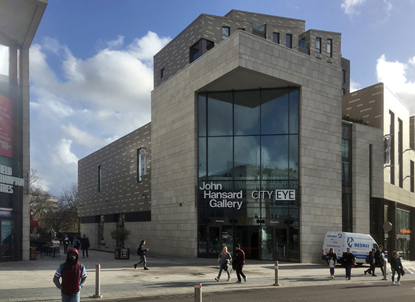 The New John Hansard Gallery Building in the cultural quarter, Southampton. The building is shared with City Eye